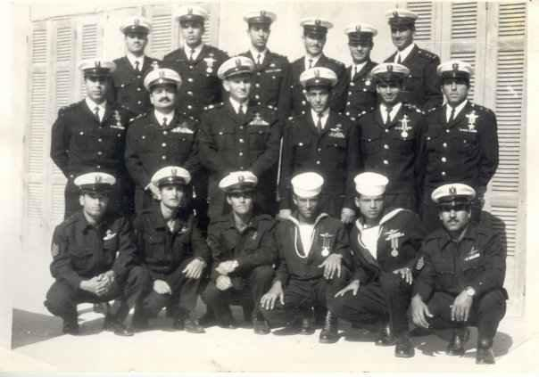 Egyptian Frogmen that make attack on Eilat port, beit shiva Battleship and bat yam troops transporter in 1969